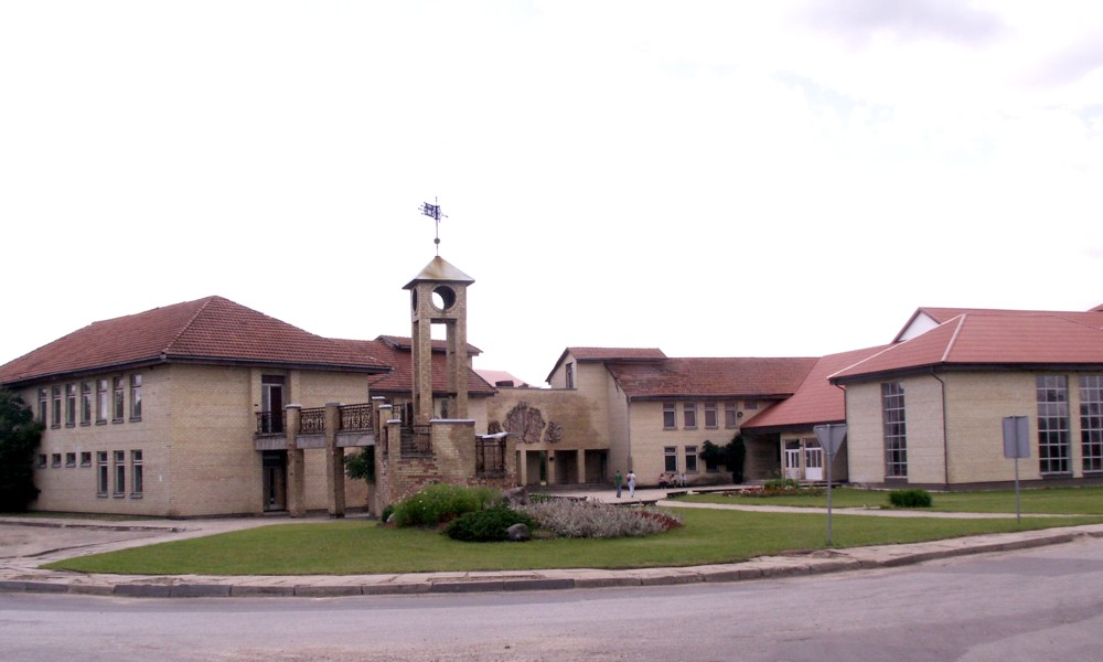 Bazilioniai city center